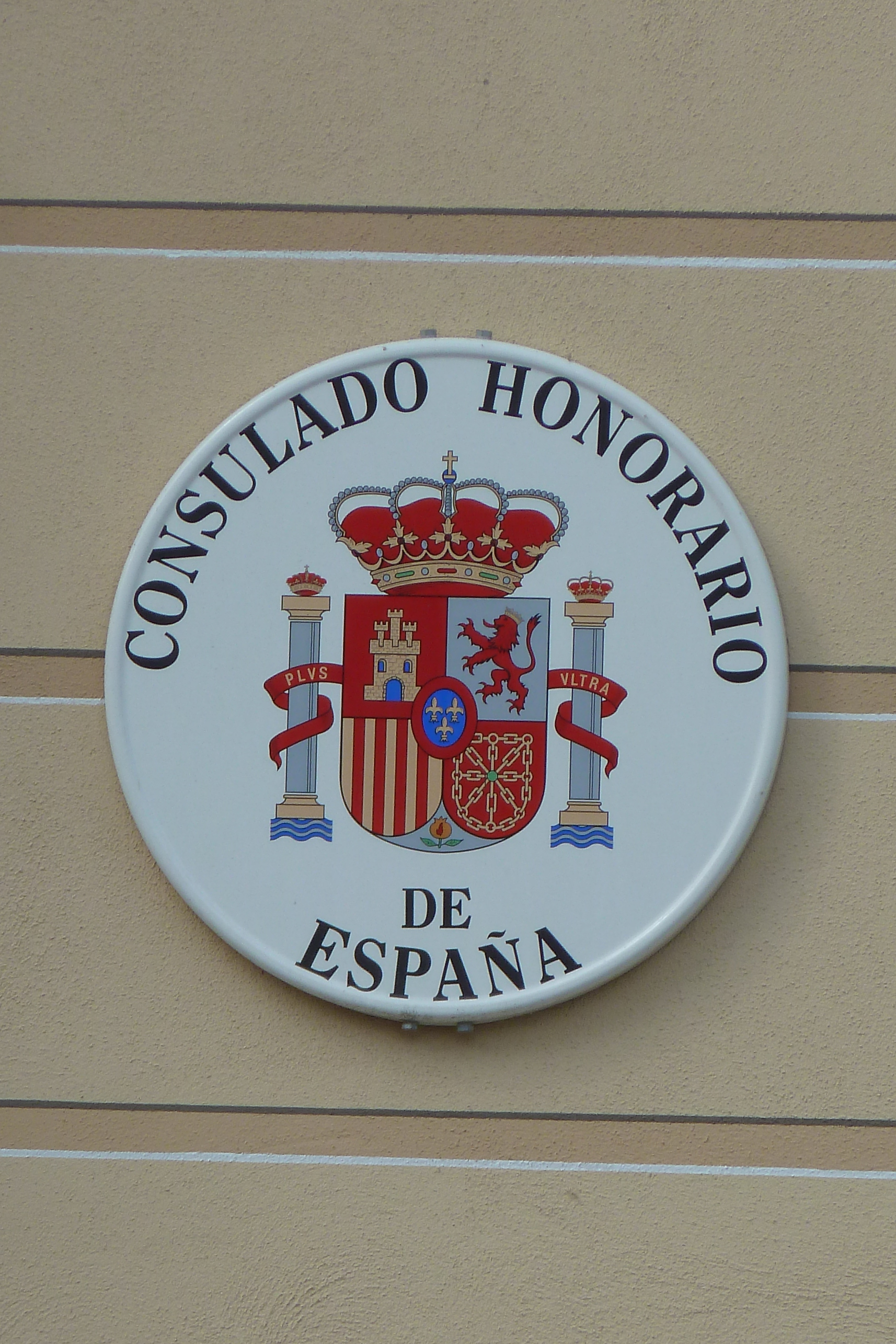 Sign of the Spanish honory consulate in Dresden, Neumarkt 12 ("Heinrich Schütz House")